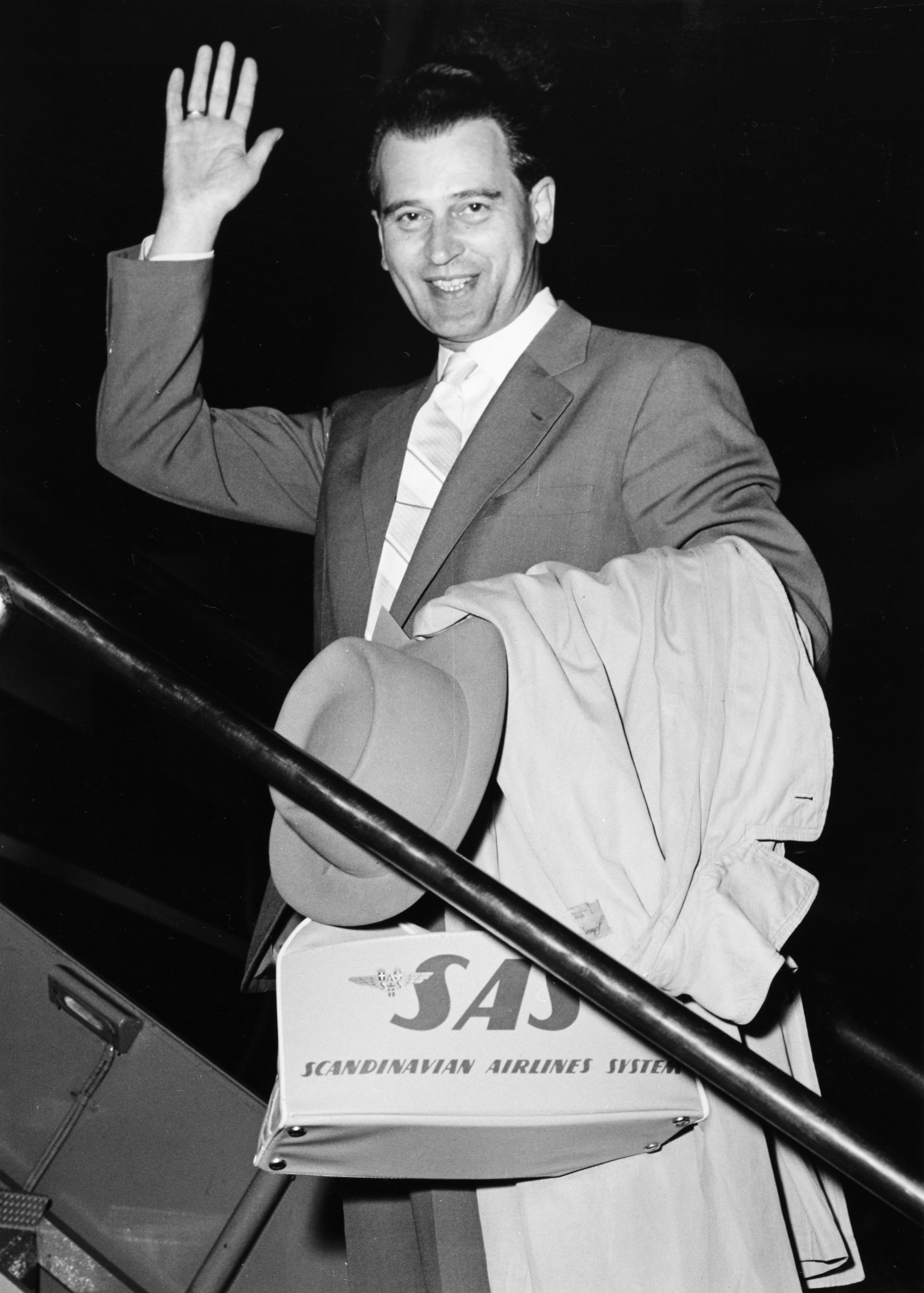 Eduard Strauss II, conducter of Vienna Symphony Orchestra at Kastrup Airport CPH, Copenhagen